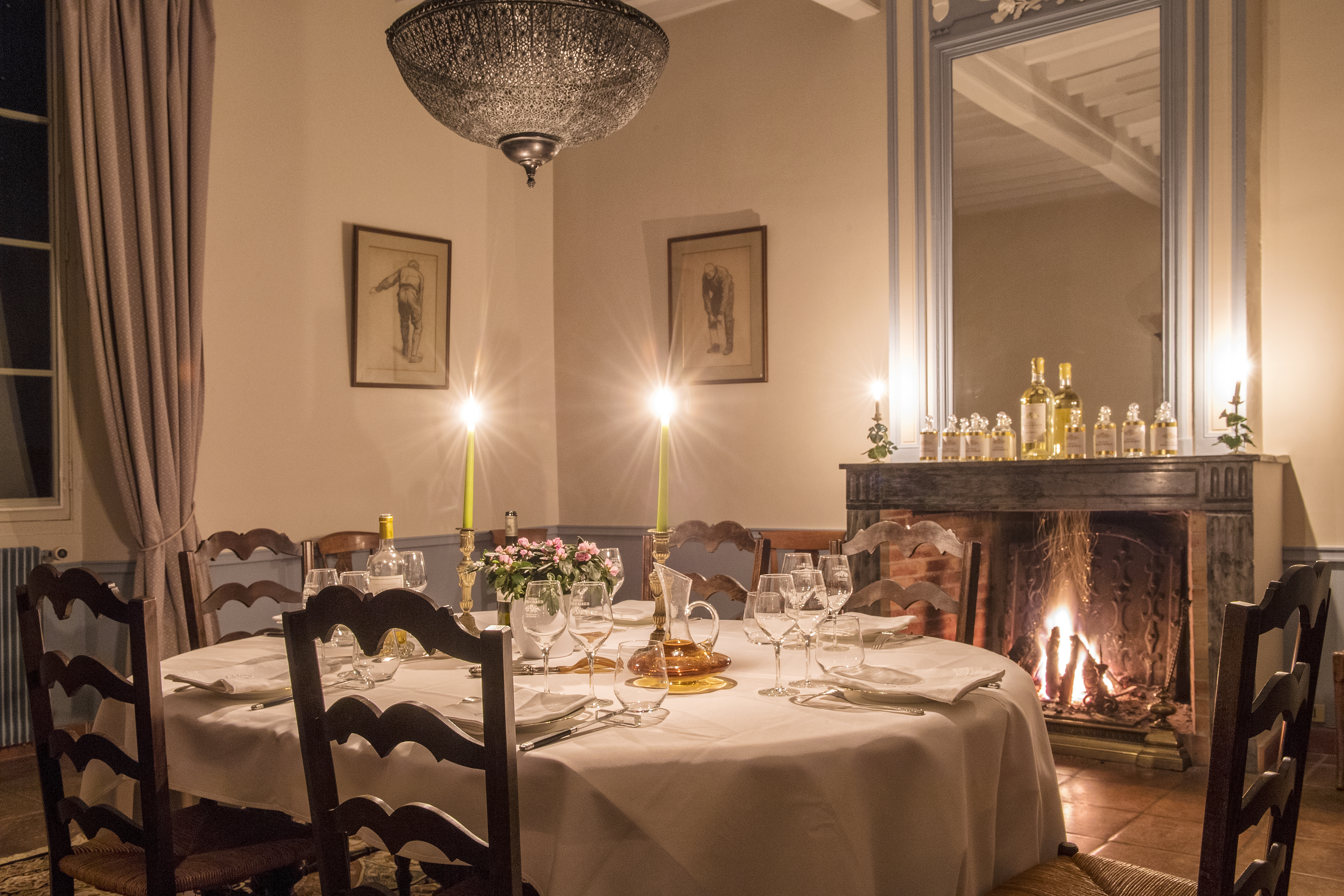 salle à manger de la Chartreuse de Sigalas Rabaud